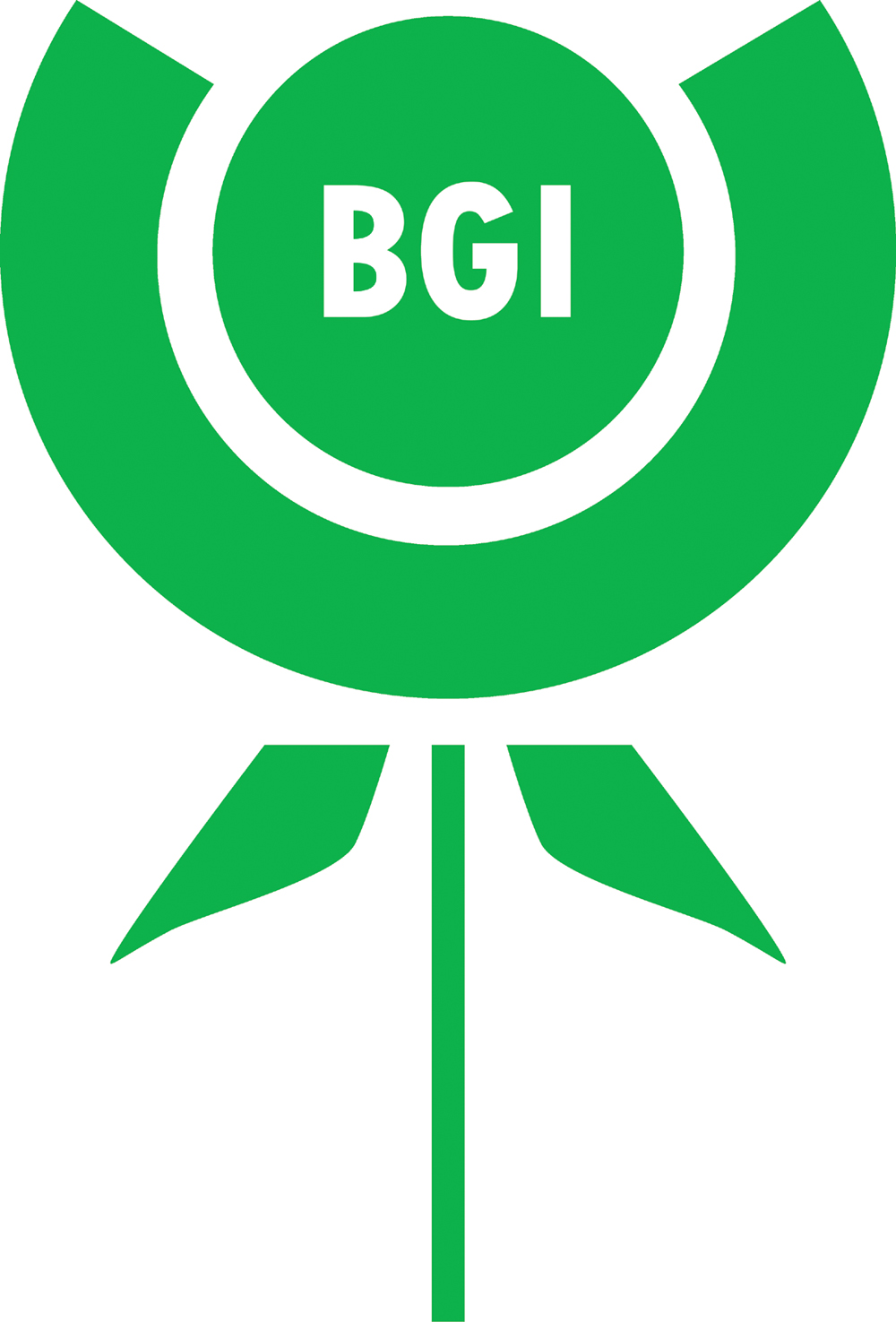 LOGO BGI